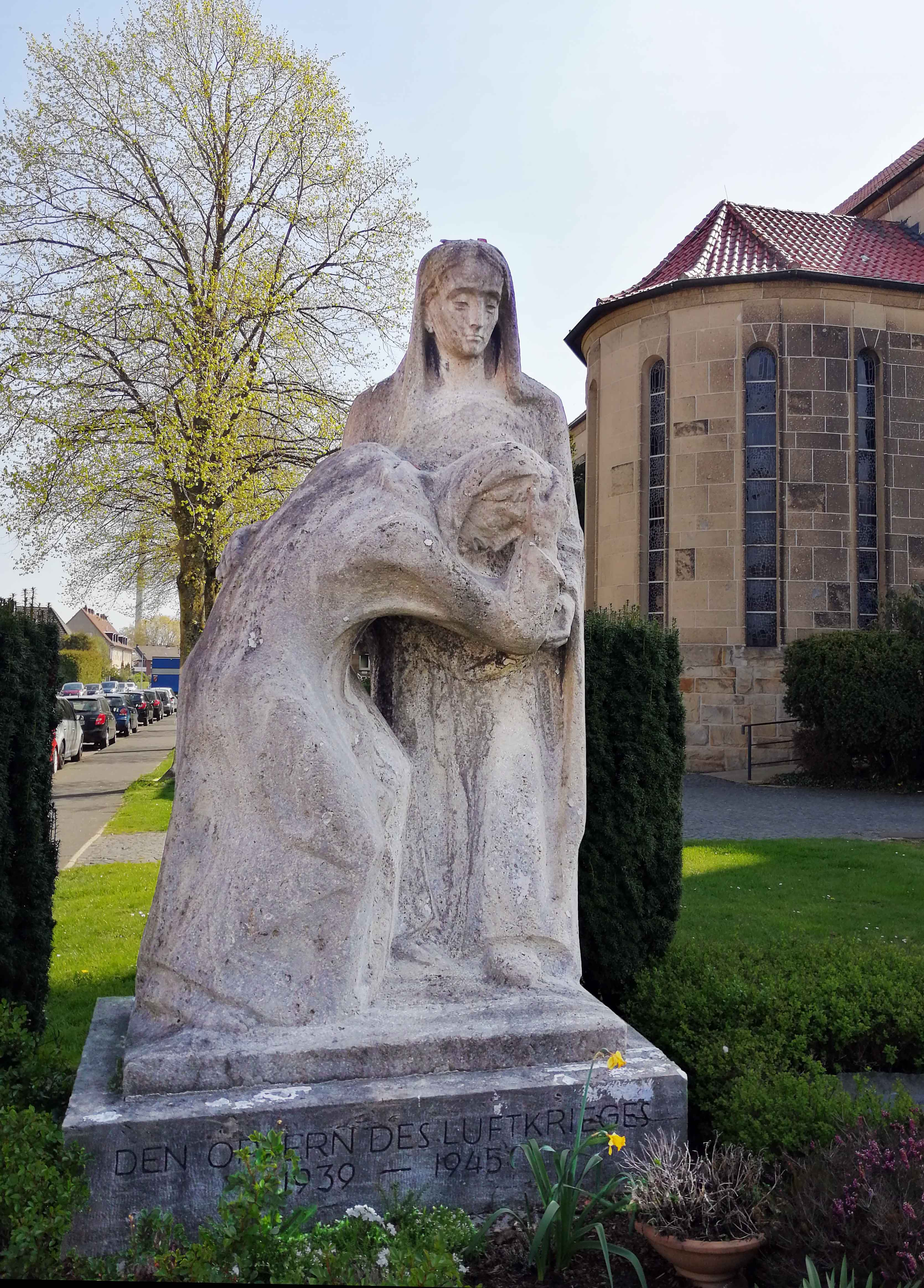 St. Elisabeth Rheine - Kriegerdenkmal 2